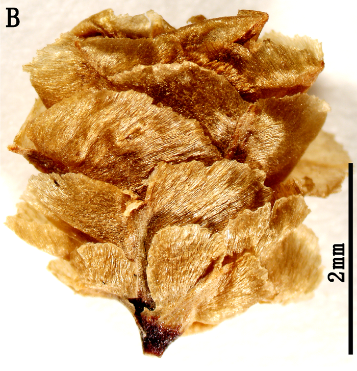 A coriaceous female cone of Ephedra strobilacea Bunge in Sect. Asarca Stapf.